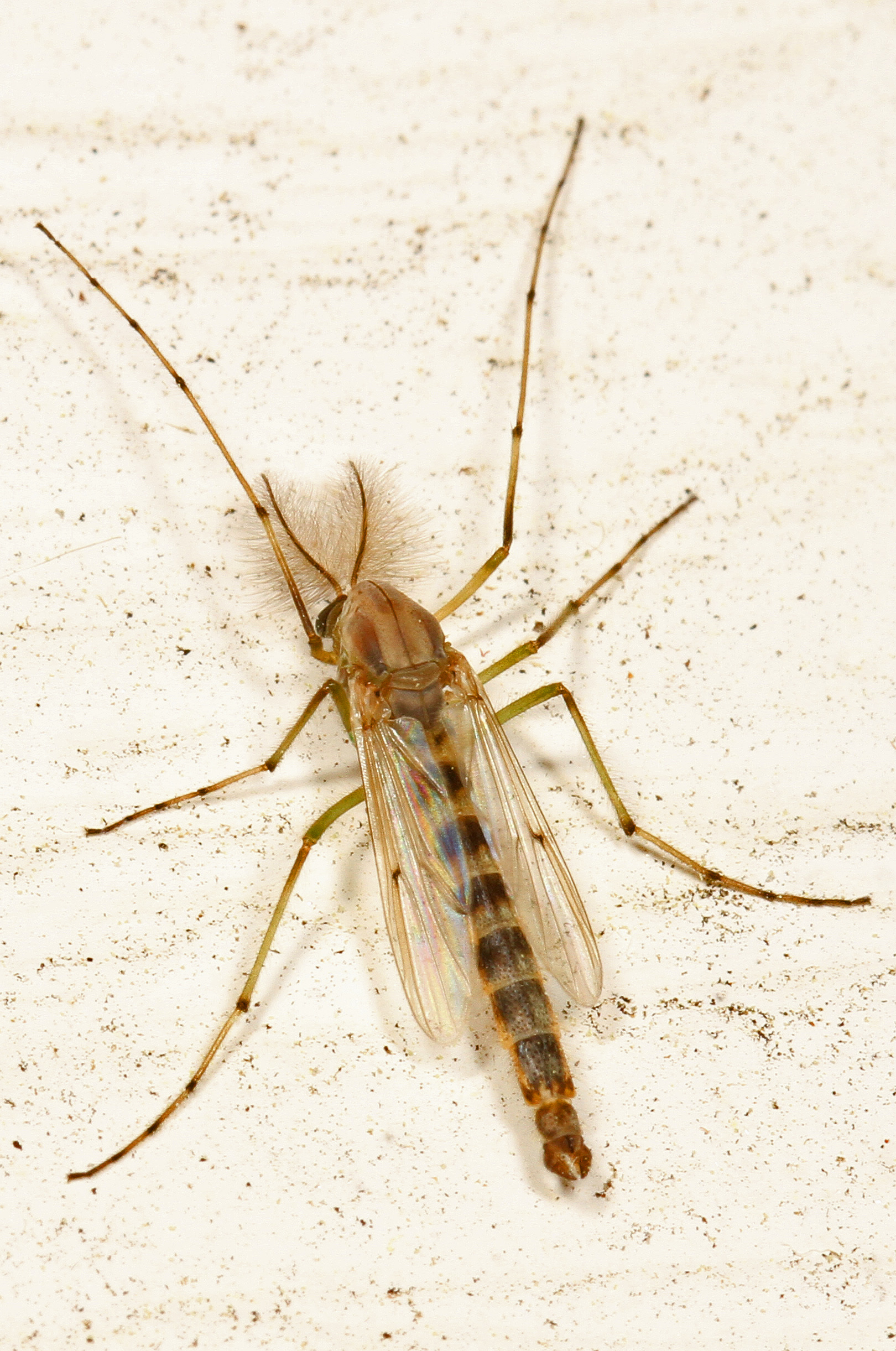 Chironomous Midge, Leesylvania State Park, Woodbridge, Virginia.